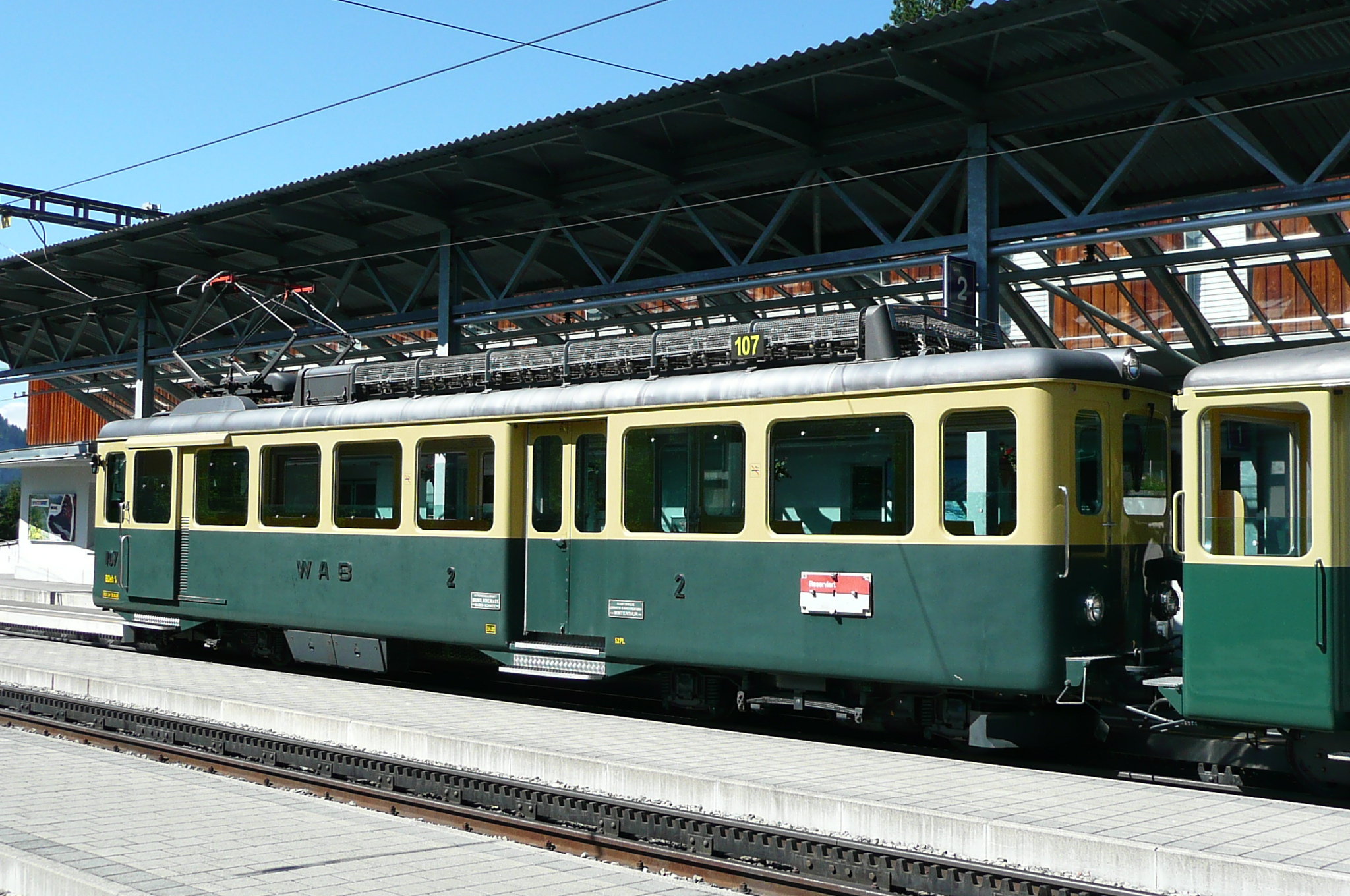 Wengernalp rack railway motor coach BDhe 4/4 107 of 1954. Original doors. Wengen station – 2009-08-05